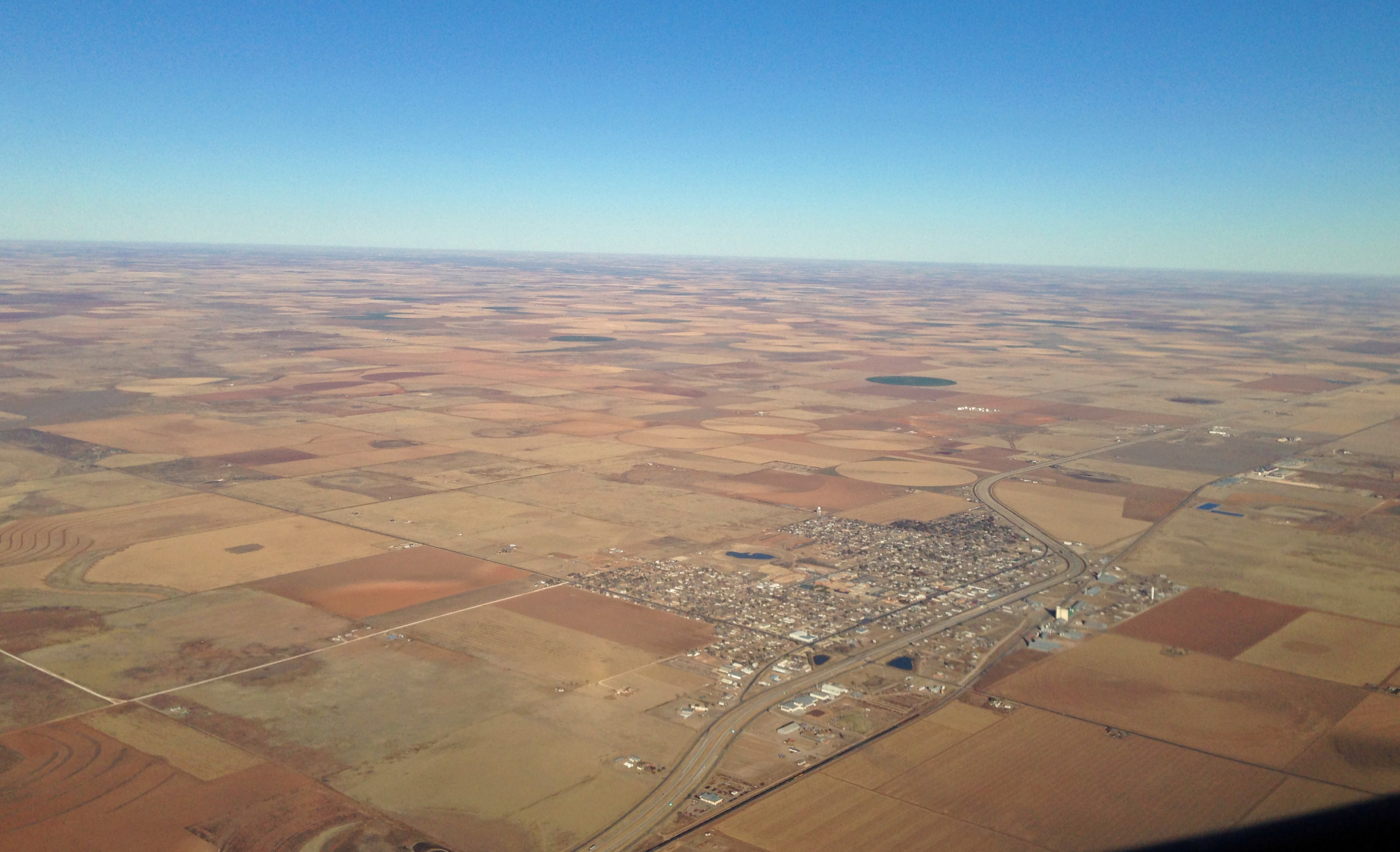 Abernathy, Texas viewed from the southeast aboard an American Airlines flight from Lubbock International Airport to Dallas-Forth Worth International Airport.